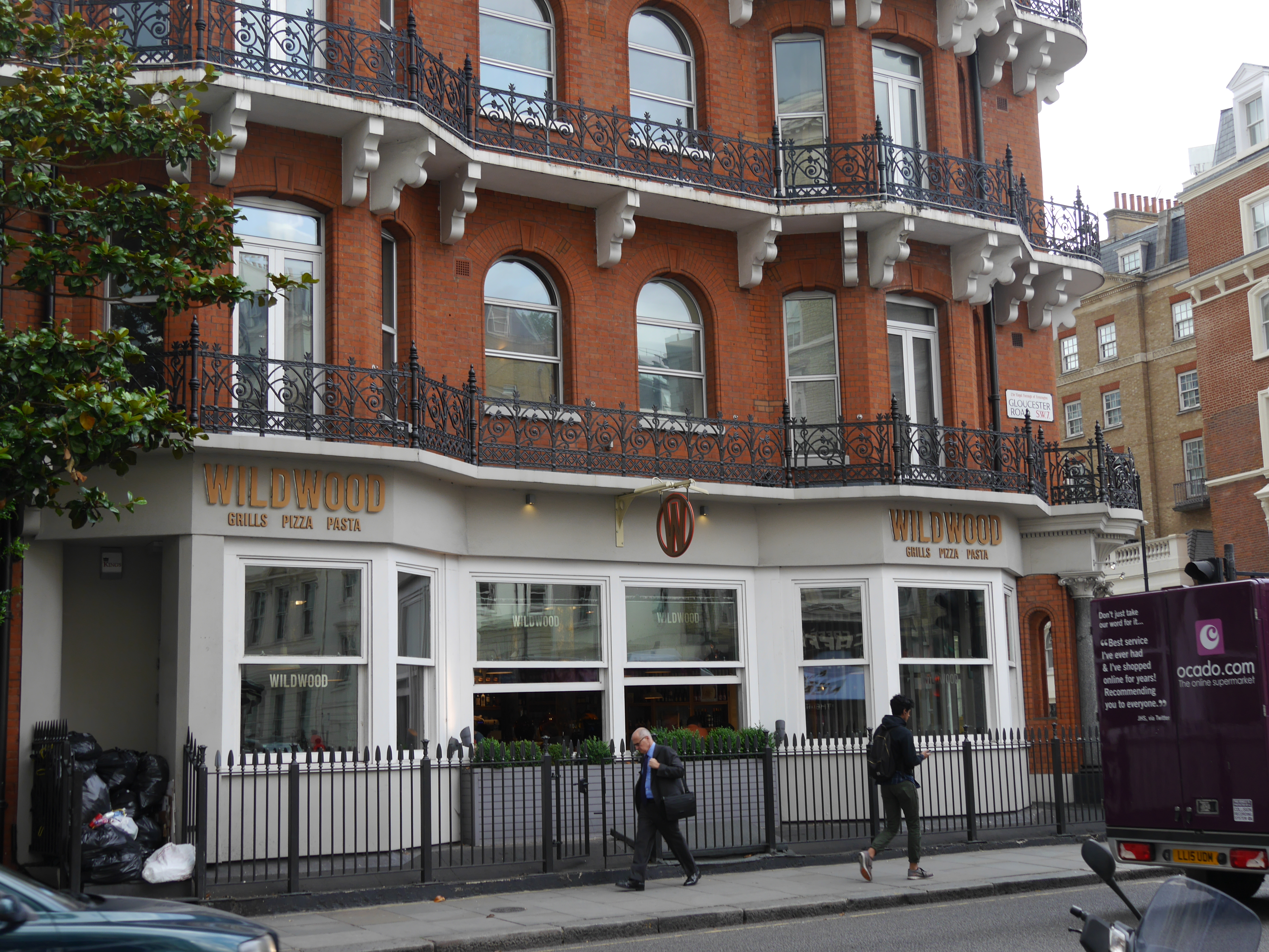 Gloucester Road, London 2016